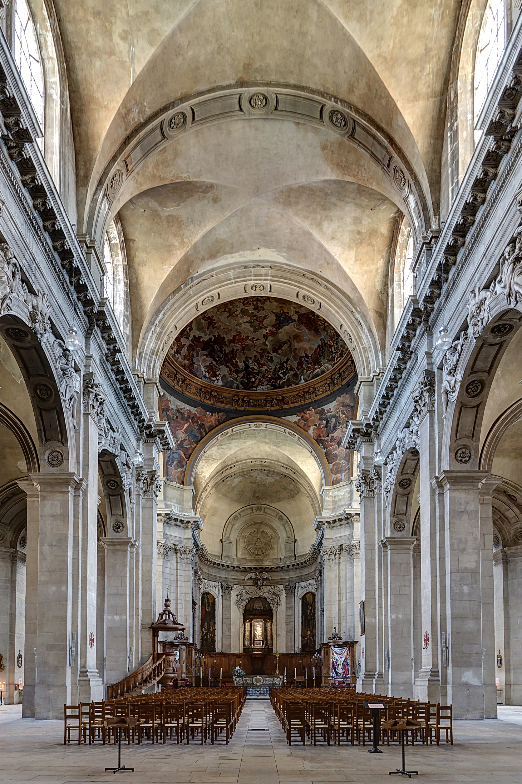 Nave of the Cathédrale Notre-Dame-de-l'Annonciation de Nancy